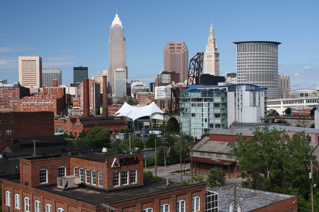 Downtown Cleveland